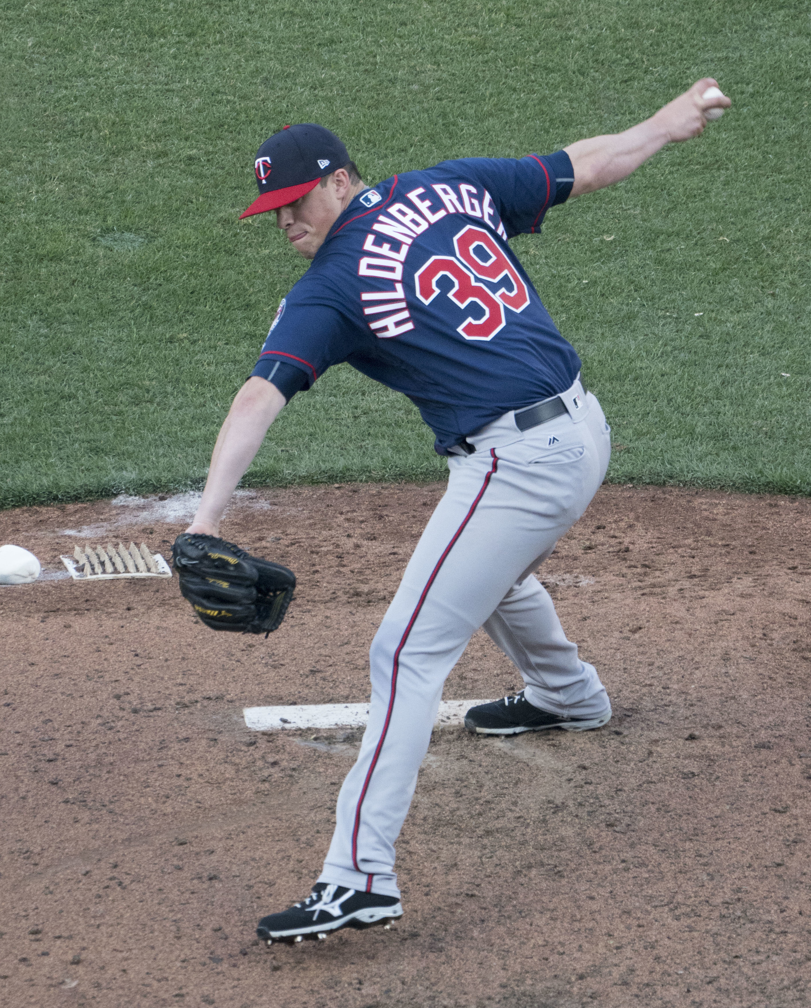 Twins at Orioles 3/29/18